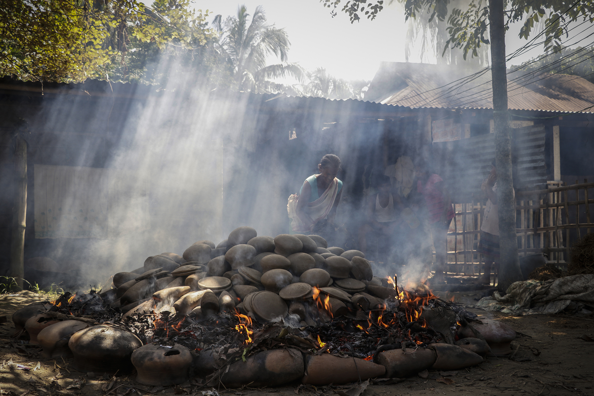 Pottery is the hereditary occupation of Hiras. Still many Hira families are practising pottery for some social, economic, domestic purpose. They have some traditional beliefs in pottery craft. They are habitual of this craft from generation to generation. The techniques, methods and instruments for making pottery used by Hiras are all traditional This photo has been taken in the country: India